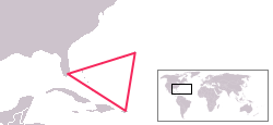 Bermuda Triangle location map.